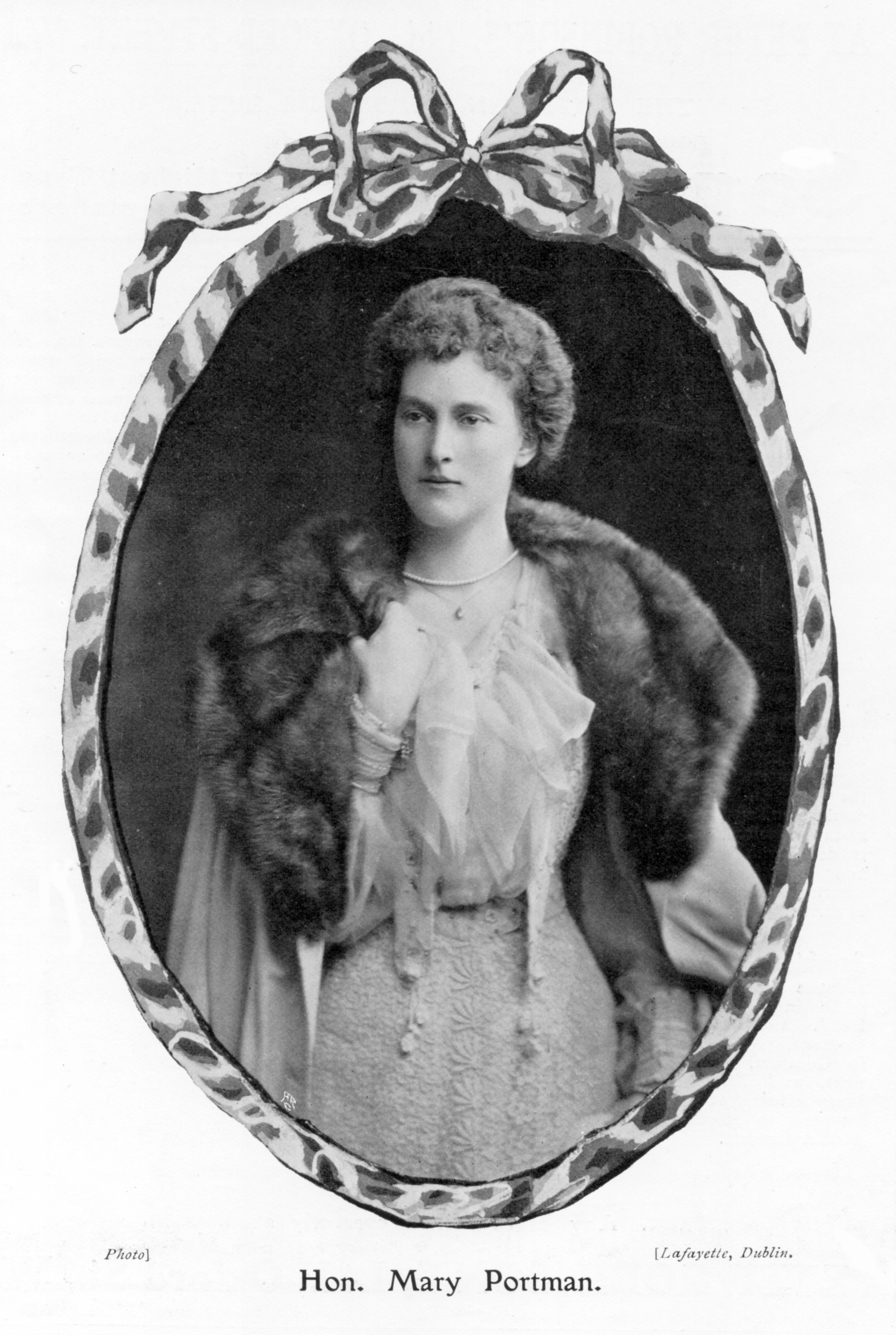 Portrait of the Honourable Mary Portman